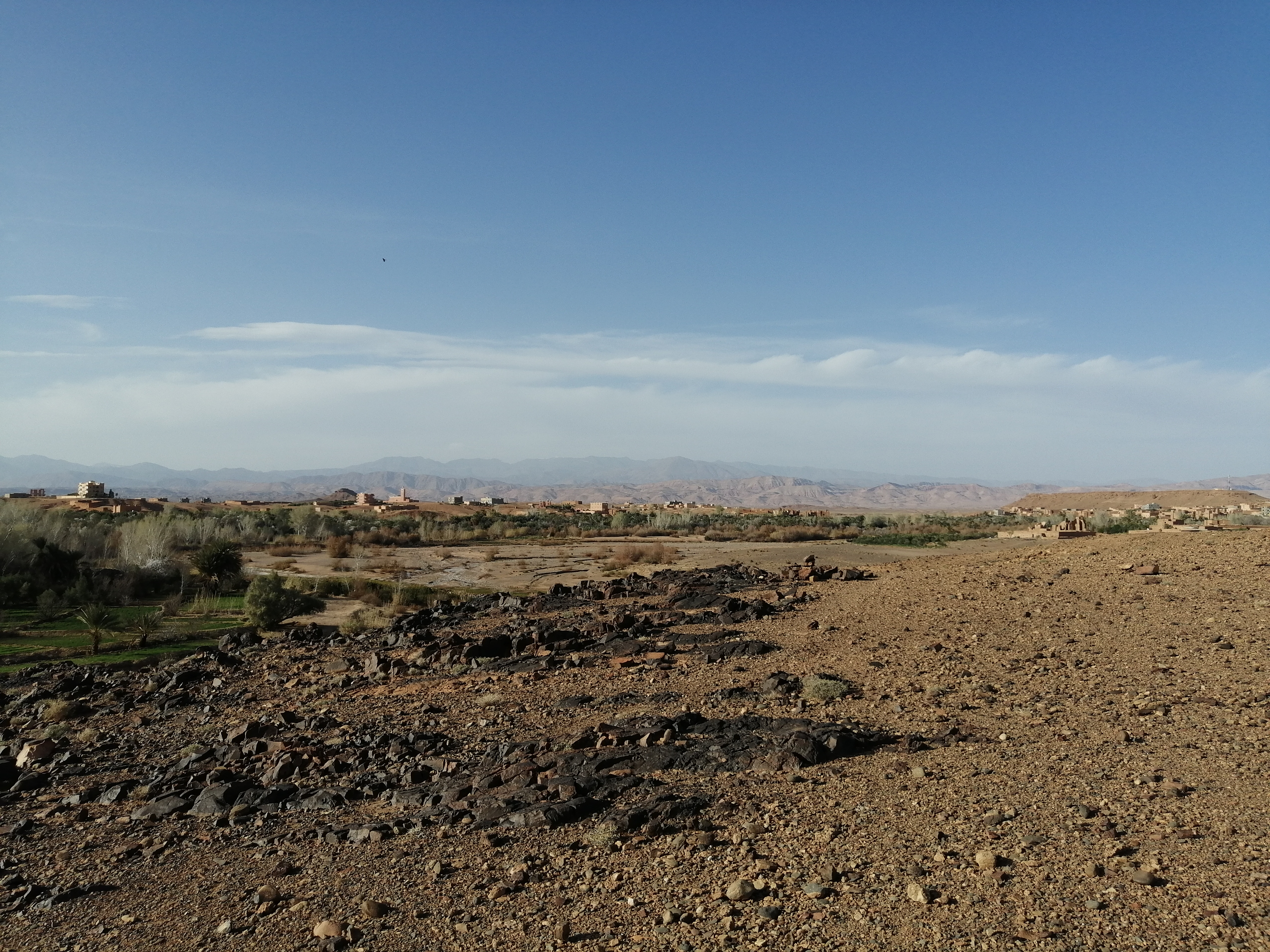 No road needed to explore, just a map and a little motivation This is an image with the theme "Africa on the Move or Transport" from: Morocco